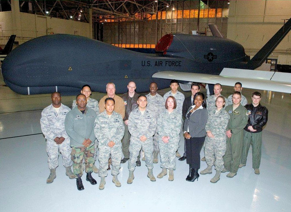 Members of the Air Force Operational Test and Evaluation Detachment 5 C2ISR Test Operations Division stand in front of a RQ-4 Global Hawk last December. The team received the Air Force Modeling and Simulation Test and Evaluation Award for their work in combining three RQ-4 Global Hawk programs into a single operational test program. (Air Force photo by Edward Cannon)